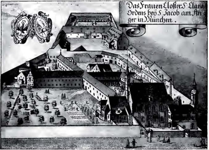 Kupferstich des Franziskannerklosters München